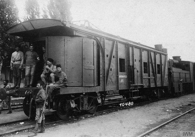 Armoured train, occupied by Georgian irregular fighters, in Tiflis. 1918. Part of the IWM's GERMAN FIRST WORLD WAR OFFICIAL EXCHANGE COLLECTION